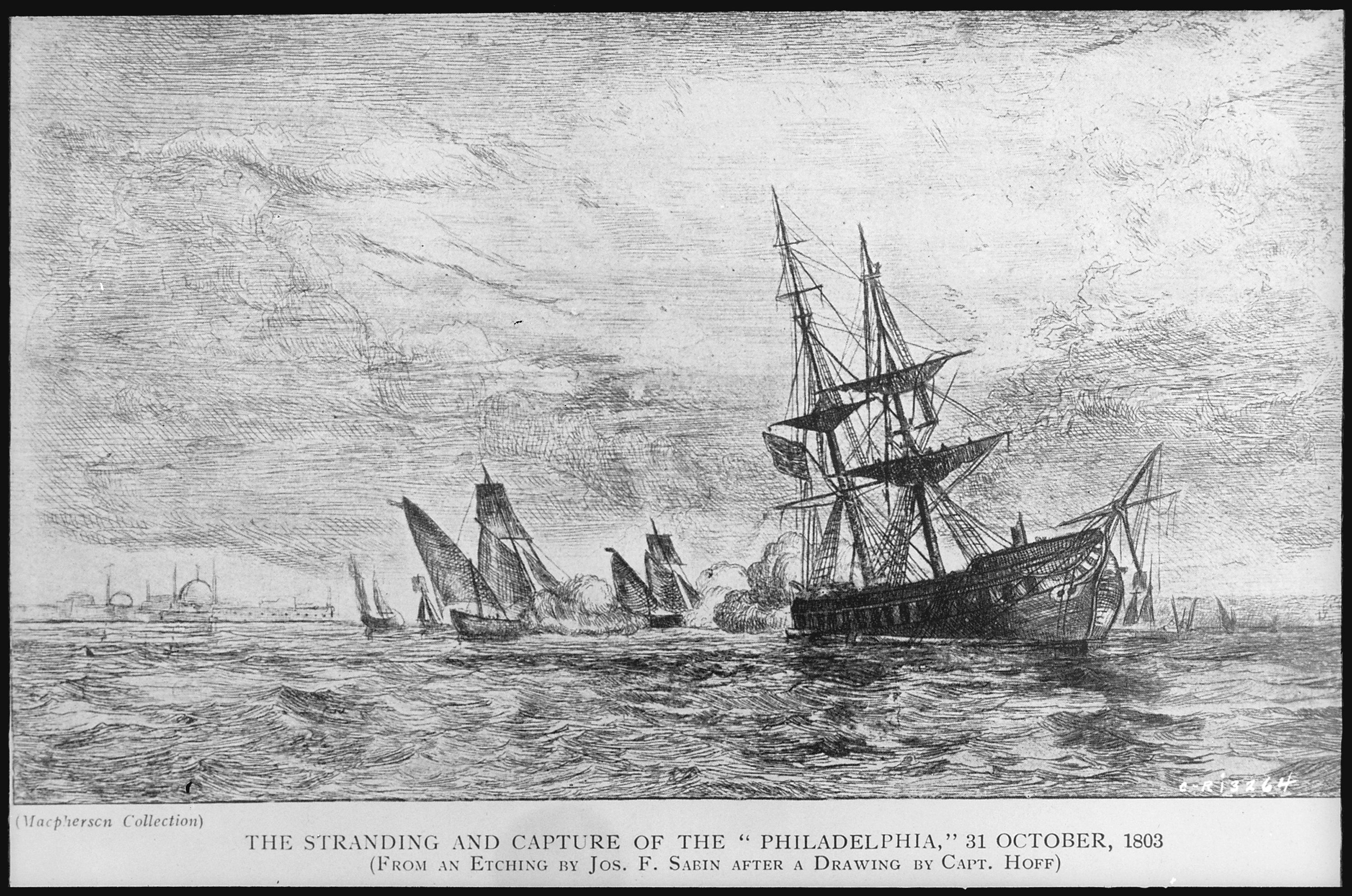 Illustration of the 'USS Philadelphia', a 38-gun frigate, commissioned in 1800. Stranding and capture on Oct. 31, 1803.